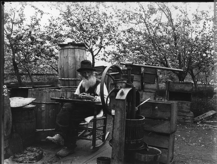 Francis Peabody Sharp saving apple seeds, Woodstock, NB, 1901